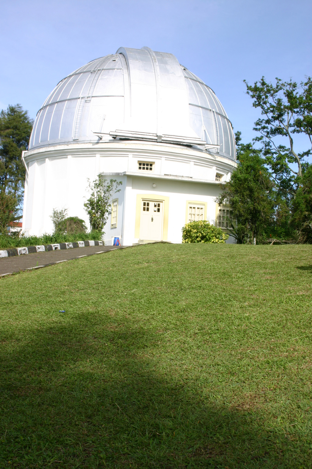 Bosscha Observatory, Lembang, Indonesia